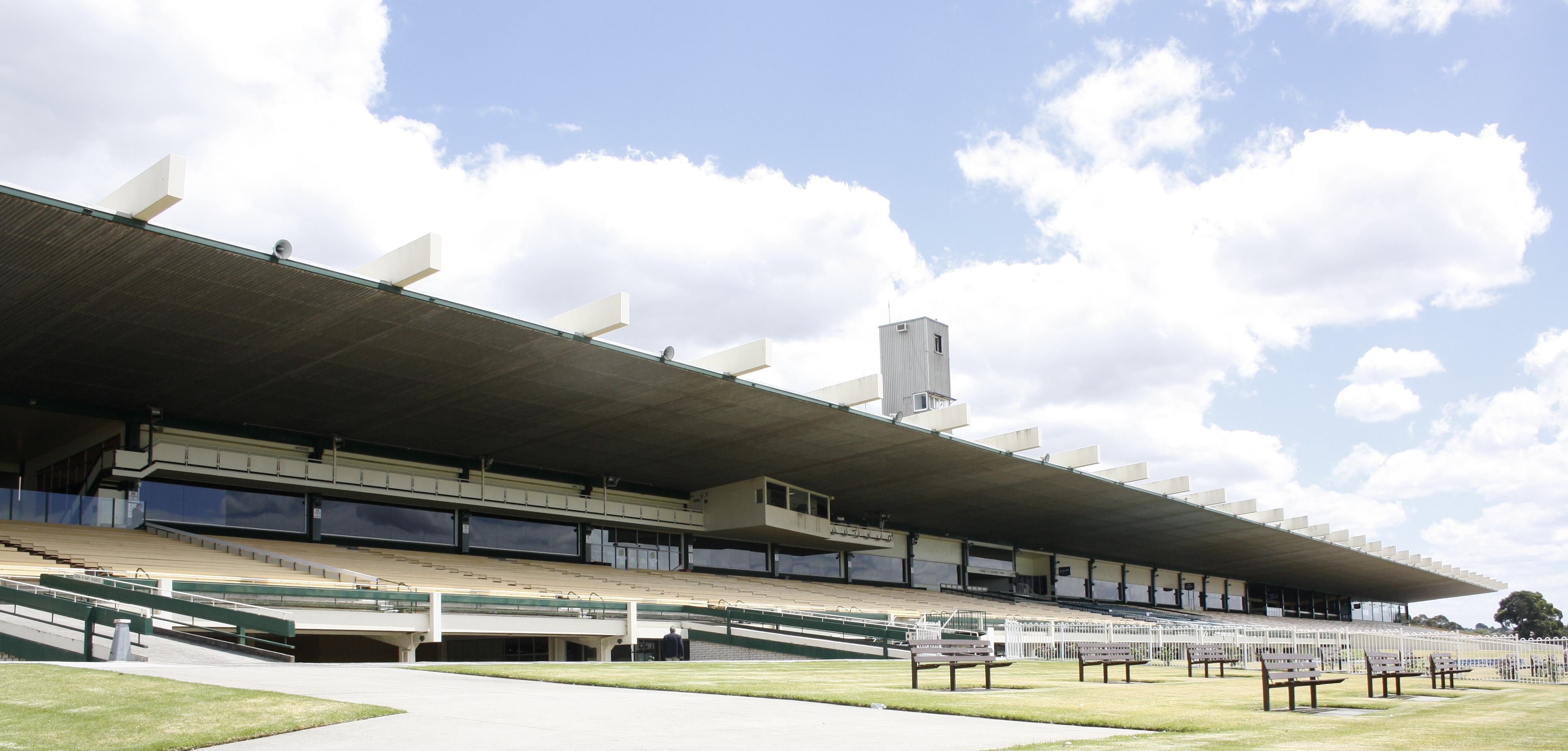 Sandown Racecourse grandstand, Melbourne